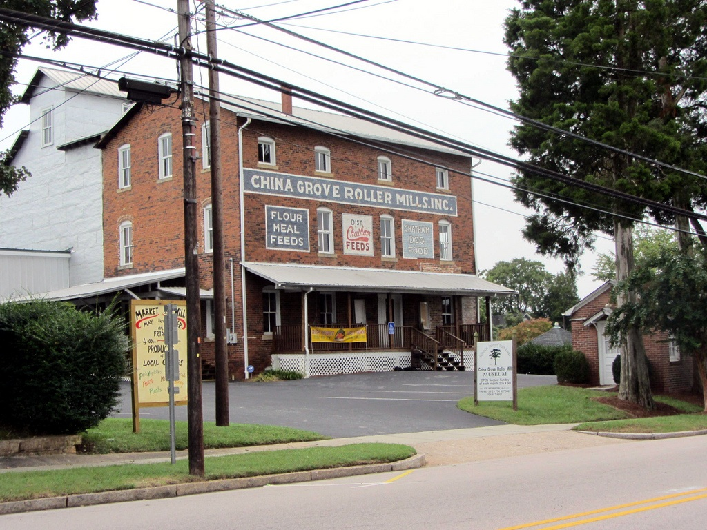 20110926 12 China Grove NC